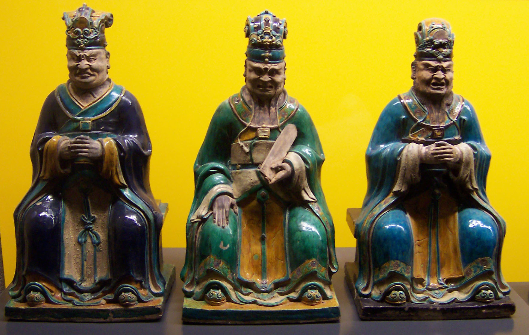 Figurines representing three of the ten judges of Di Yu. Taken at the Royal Ontario Museum. Dated 16th century, during the Ming Dynasty of China.